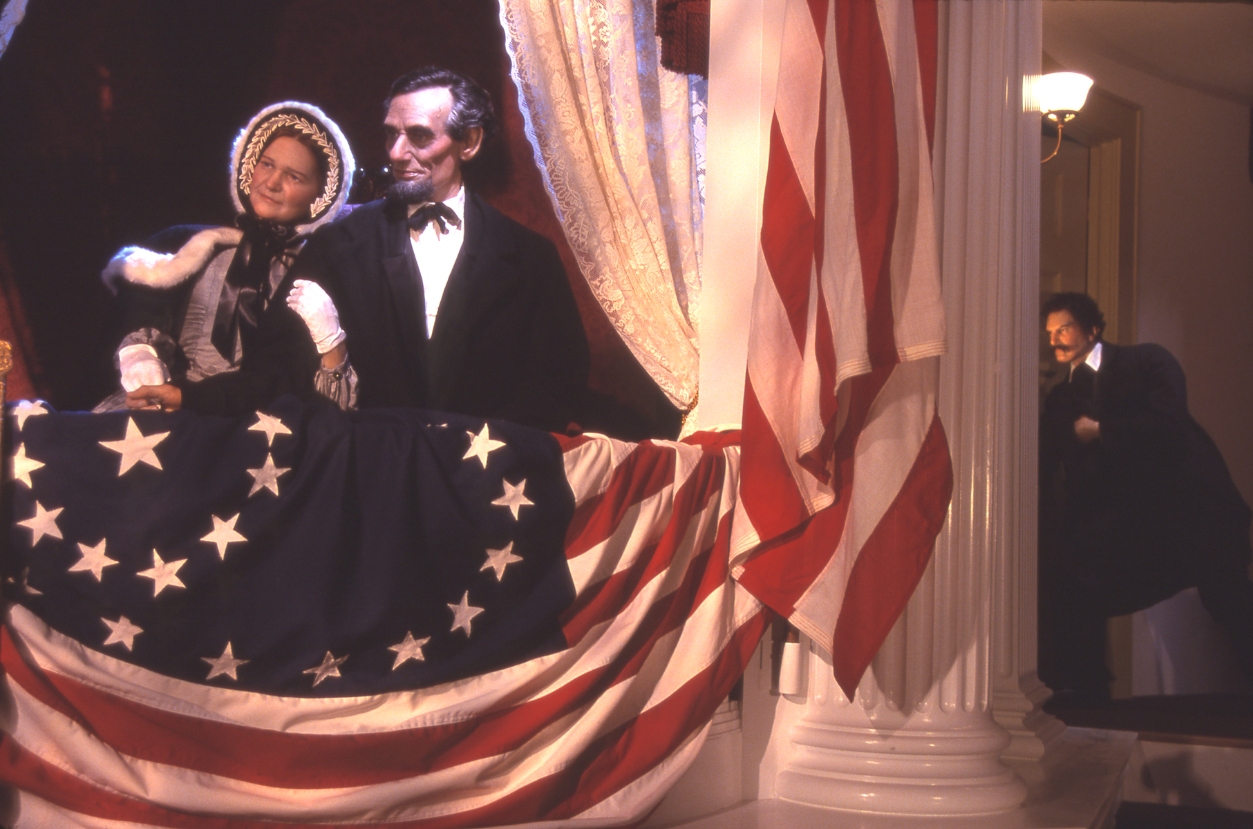 Ford's Theater Scene in the Abraham Lincoln Museum in Springfield, Illinois